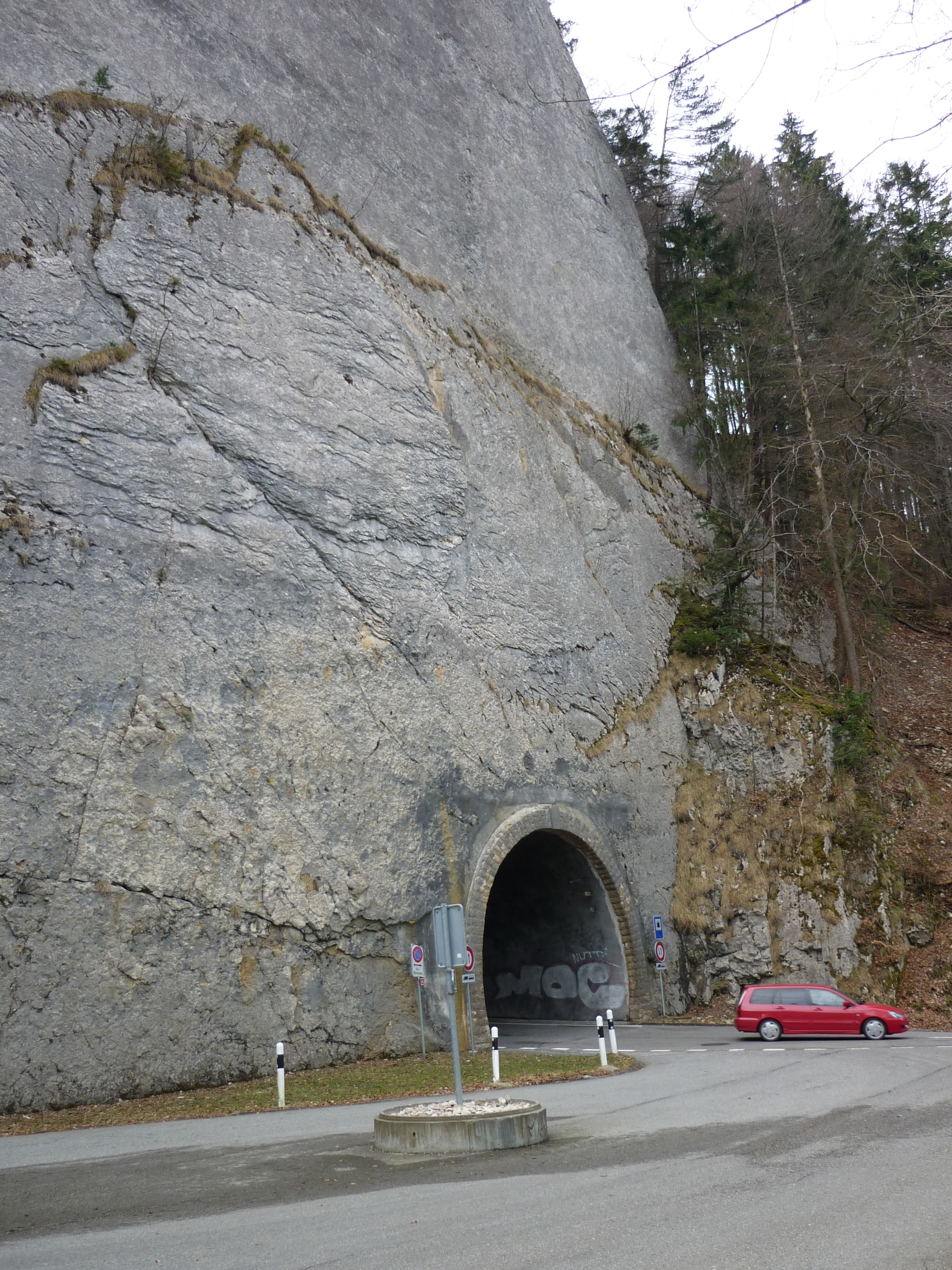 North portal of the Passwang summit tunnel, Canton of Solothurn, Switzerland.